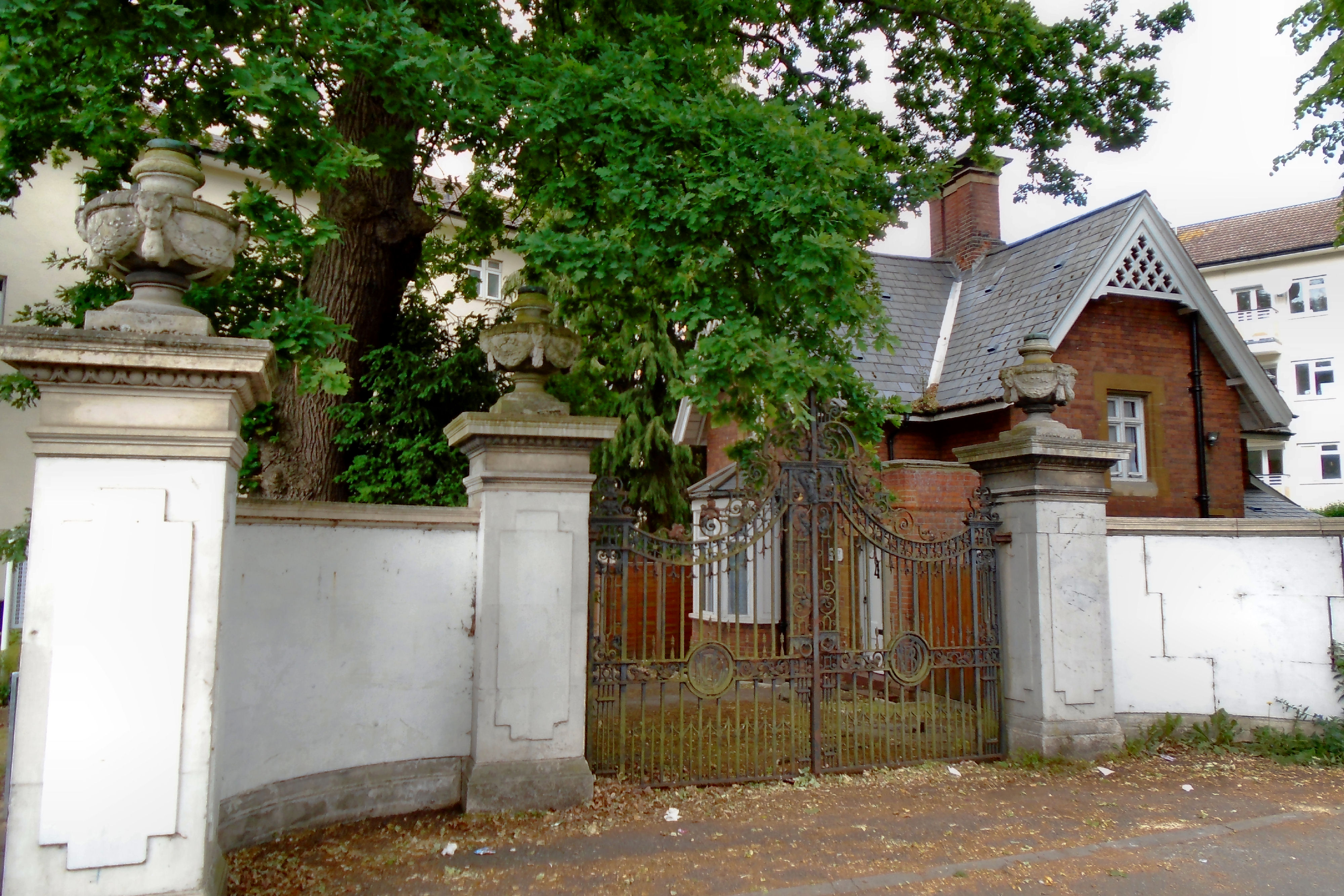 Kingsnympton Park Gateway beside South Lodge, Kingston Hill. Grade:II, List Entry Number:1300077. The gateway has four Portland stone gate piers with quadrant walls to the outer bays. The piers have square panelled shafts with cornice heads surmounted by urns. The automated wrought iron entrance gates in the centre were installed by Mr Maneckjee B Dadabhoy of Nagpur about the 1930s; the roundels have his intertwined initials "MBD".